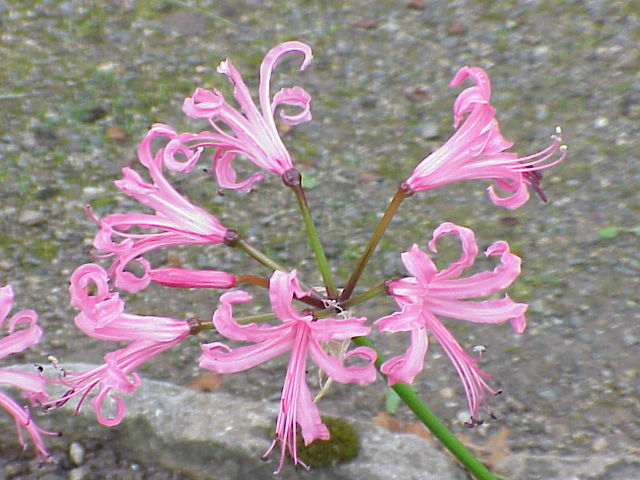 Species: Nerine bowdenii Family: Amaryllidaceae Image No. 2